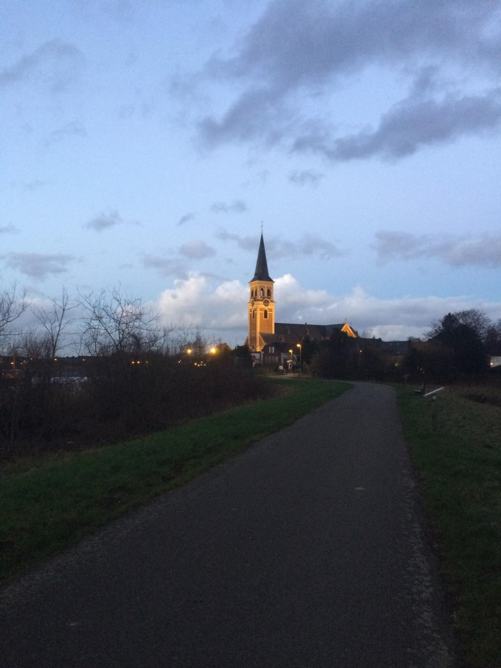 Church of Sint-Amands (Province of Antwerp, Belgium) at night